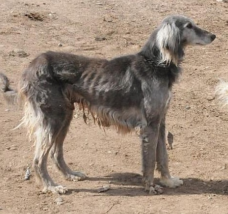 Taigan in Issyk-Kul, Kyrgyzstan